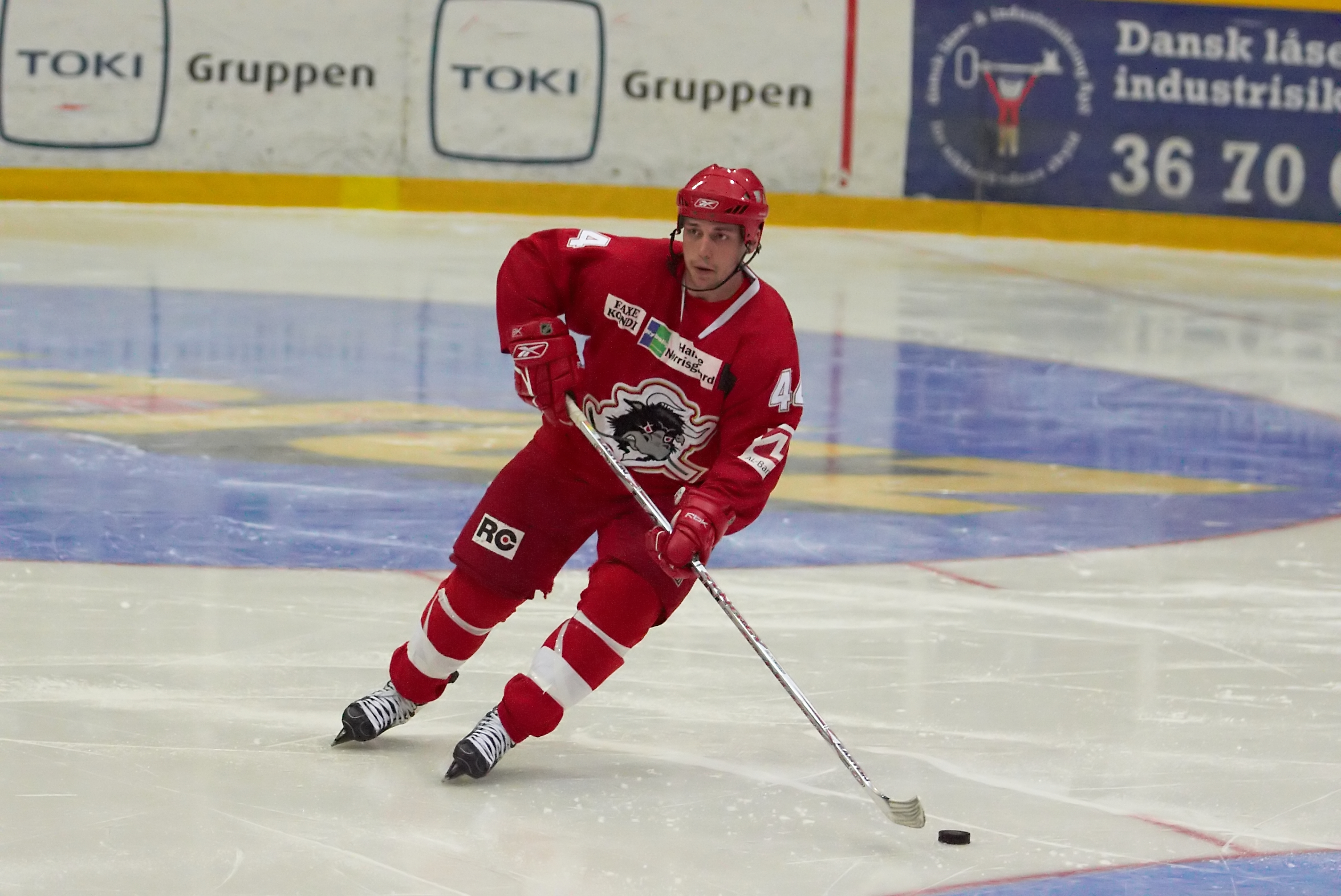 Mr. Nathan Lutz in action